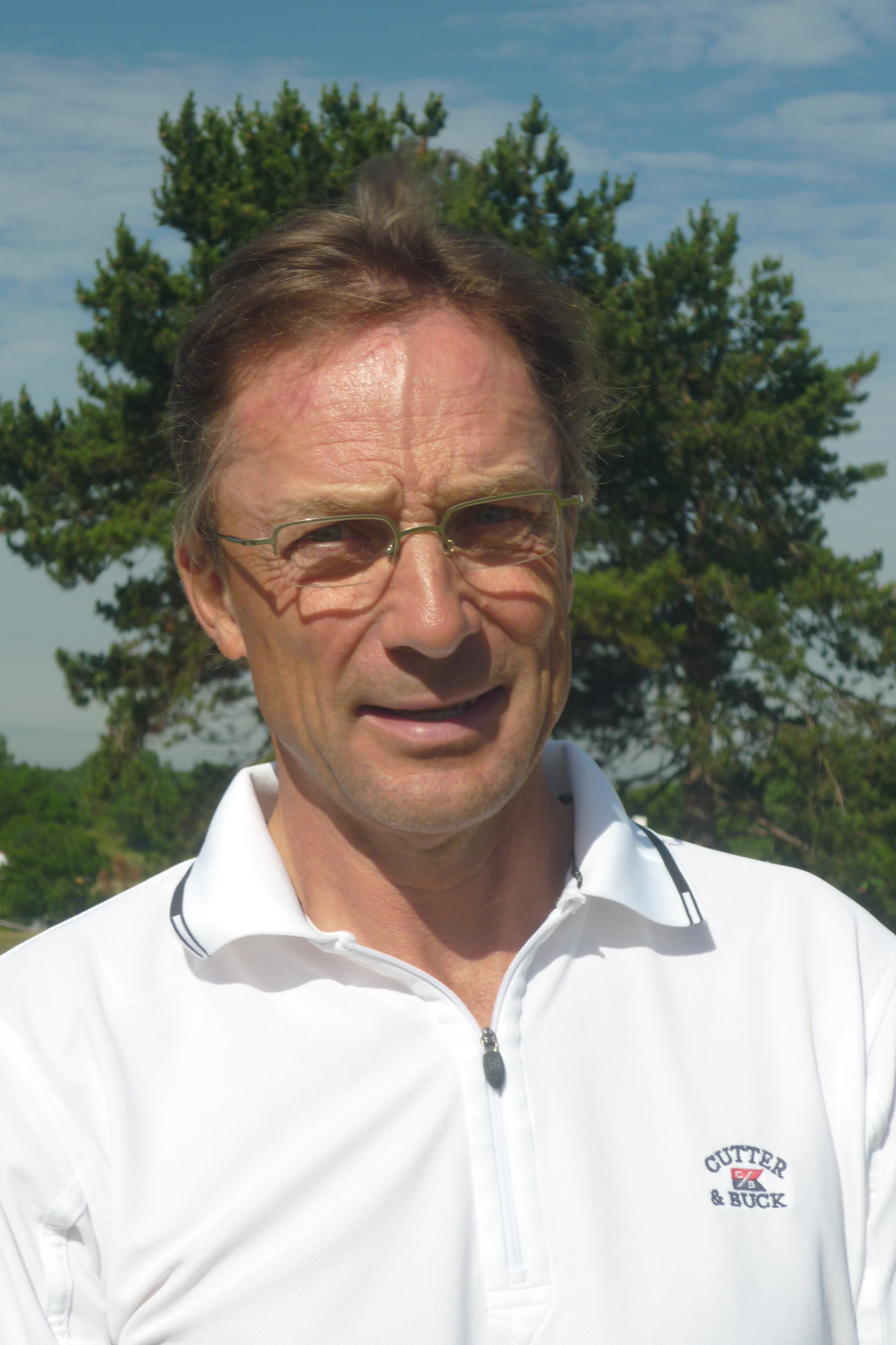 Anders Johansson at Dutch Seniors Open